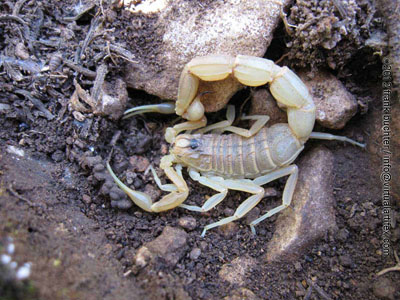 Buthus occitanus occitanus